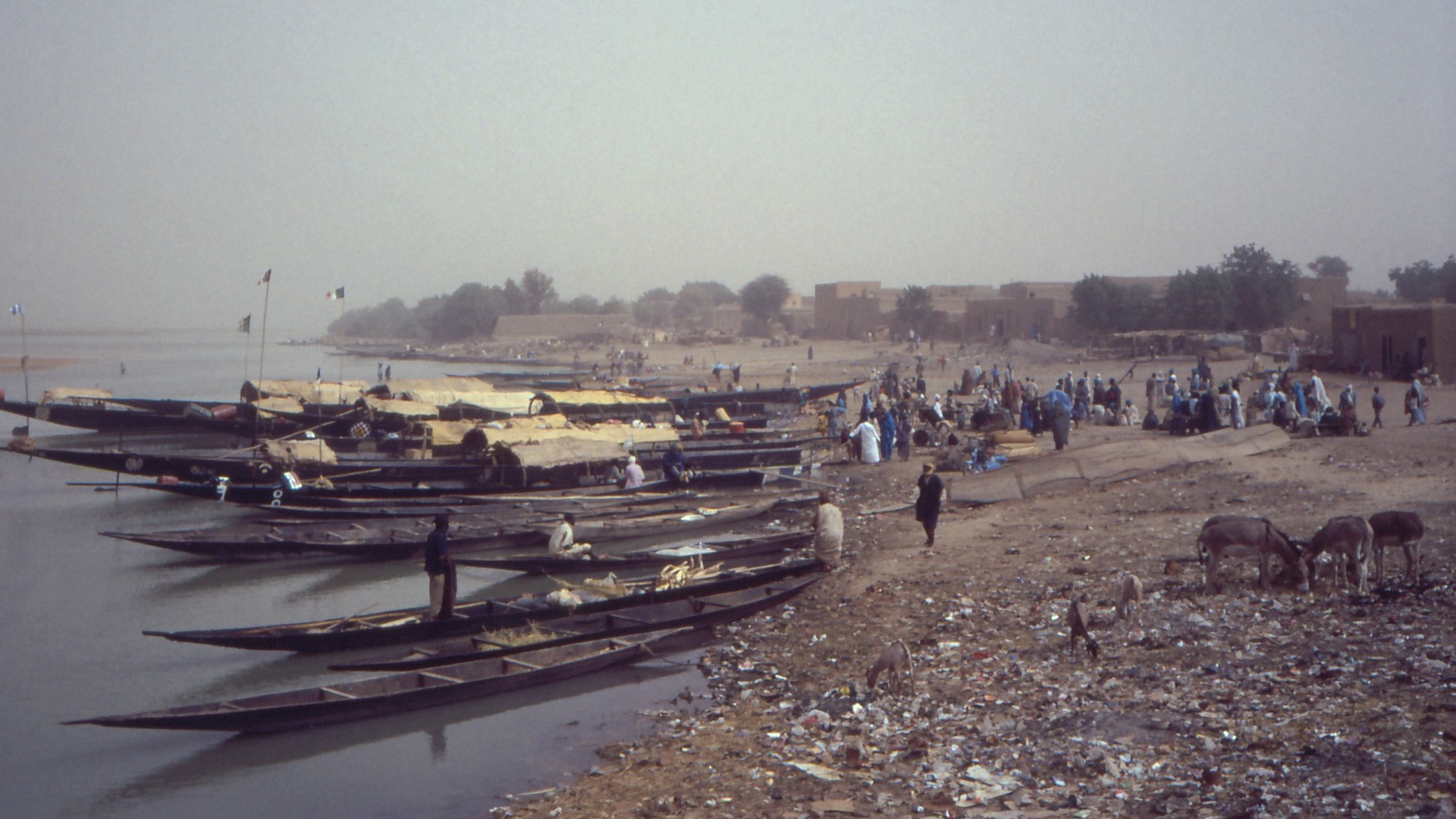 Pirogues on the banks of the Niger river at Gao, Mali (1990)